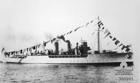 The Royal Australian Navy minesweeping sloop HMAS Marguerite in 1920 dressed for a visit by the Prince of Wales